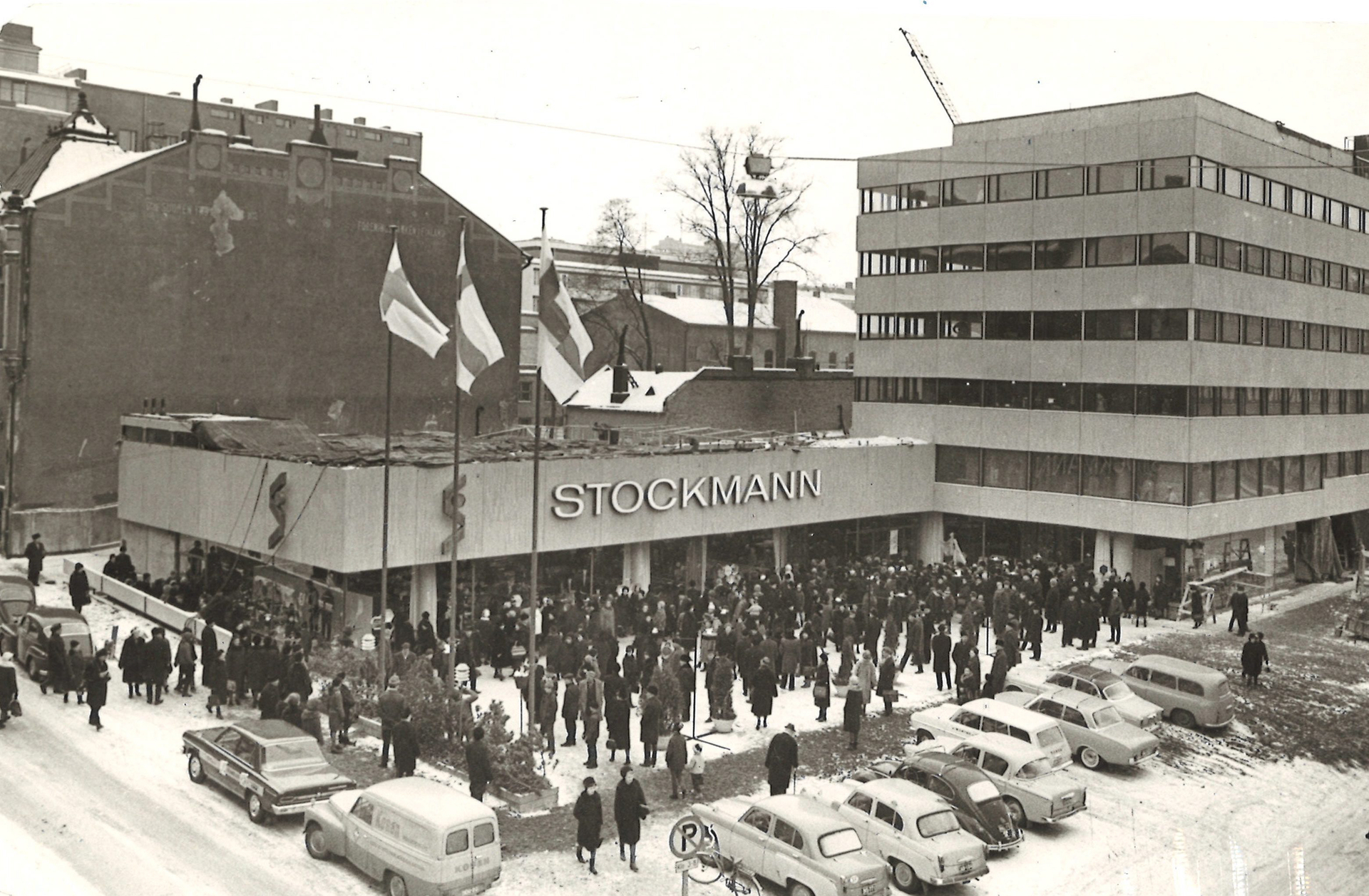 Photograph from the opening of the second Stockmann department store of Tampere.